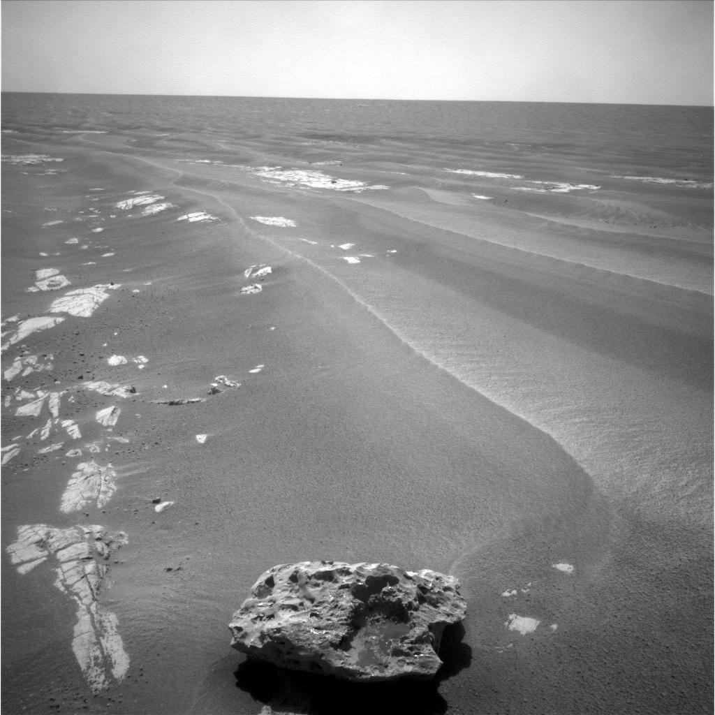 The Mars Exploration Rover Opportunity has eyed an oddly shaped, dark rock, which may be a meteorite and is about 2 feet across, on the surface of the Red Planet. The team spotted the rock called 'Block Island' in the opposite direction from which it was driving. The rover then backtracked some 820 feet to study it closer. Scientists will test the rock with the alpha particle X-ray spectrometer to get composition measurements and to confirm if indeed it is a meteorite.